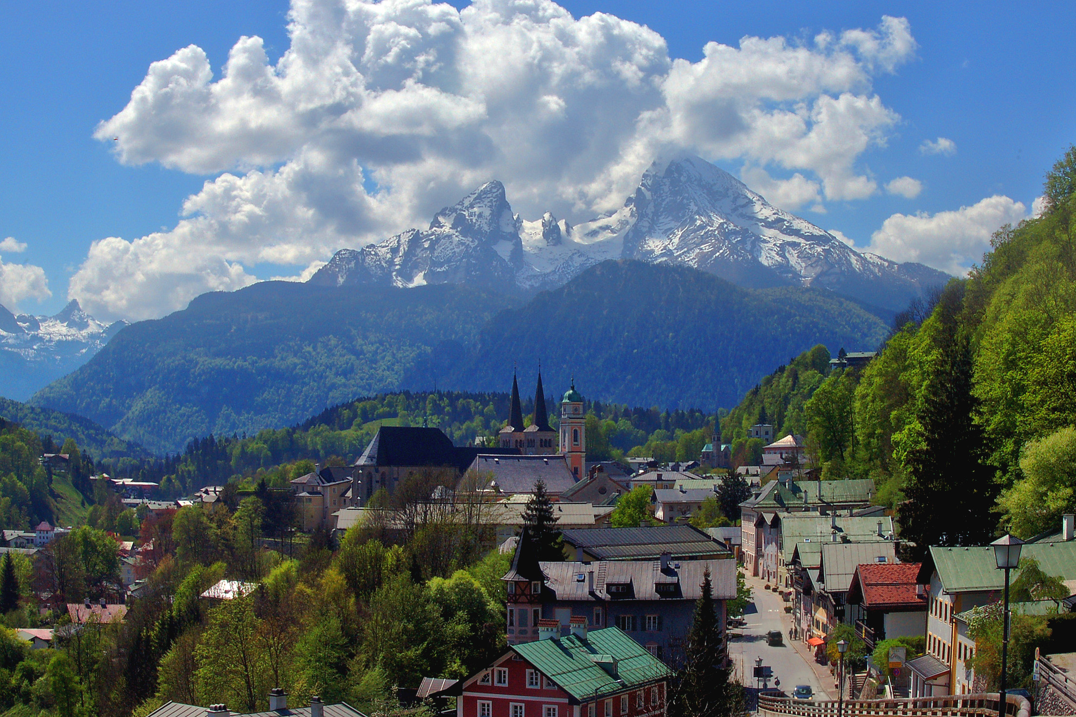 Berchtesgaden with a view of Mount Watzmann in Germany